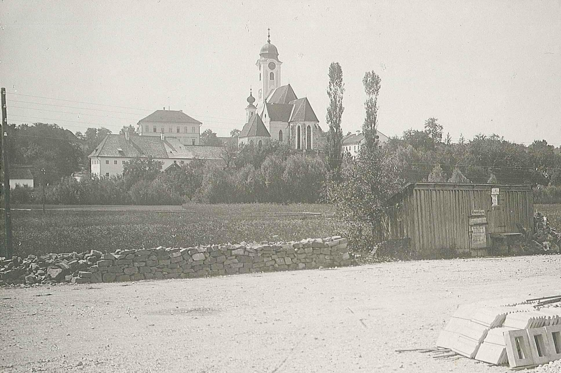 Wartberg an der Krems, Austria